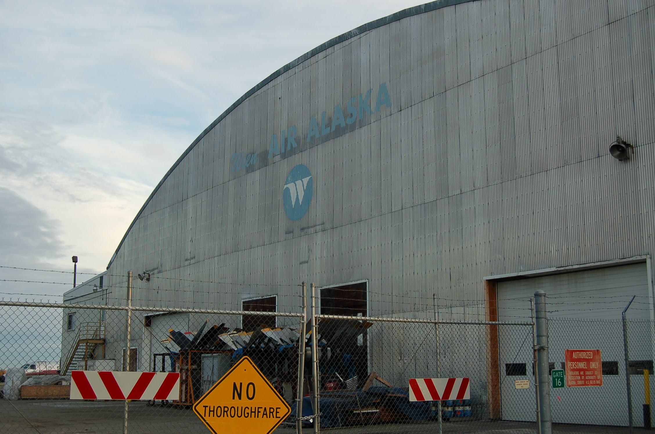 Former Wien Air Alaska hangar at Fairbanks International Airport in Fairbanks, Alaska